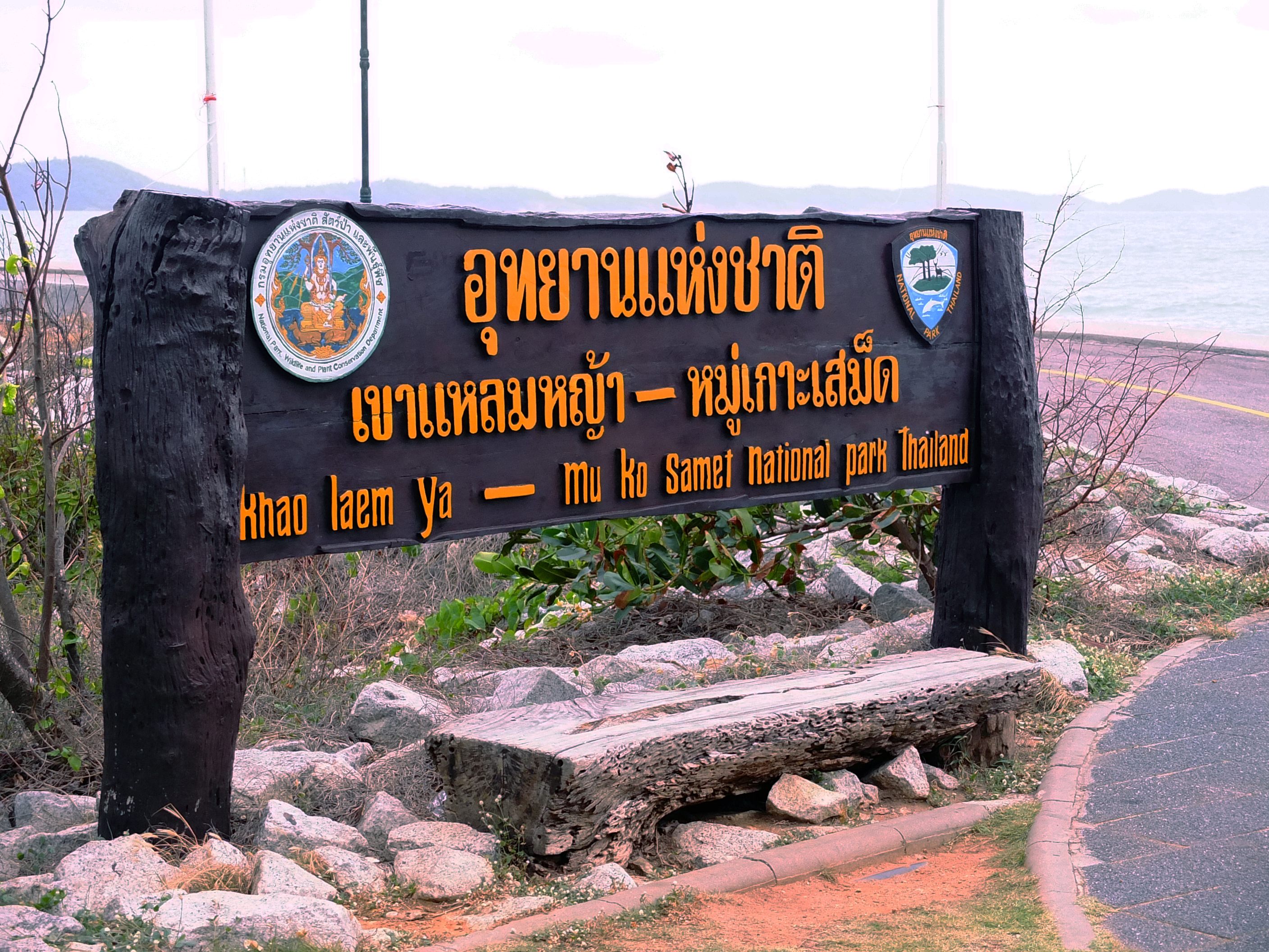 อุทยานแห่งชาติเขาแหลมหญ้า-หมู่เกาะเสม็ด